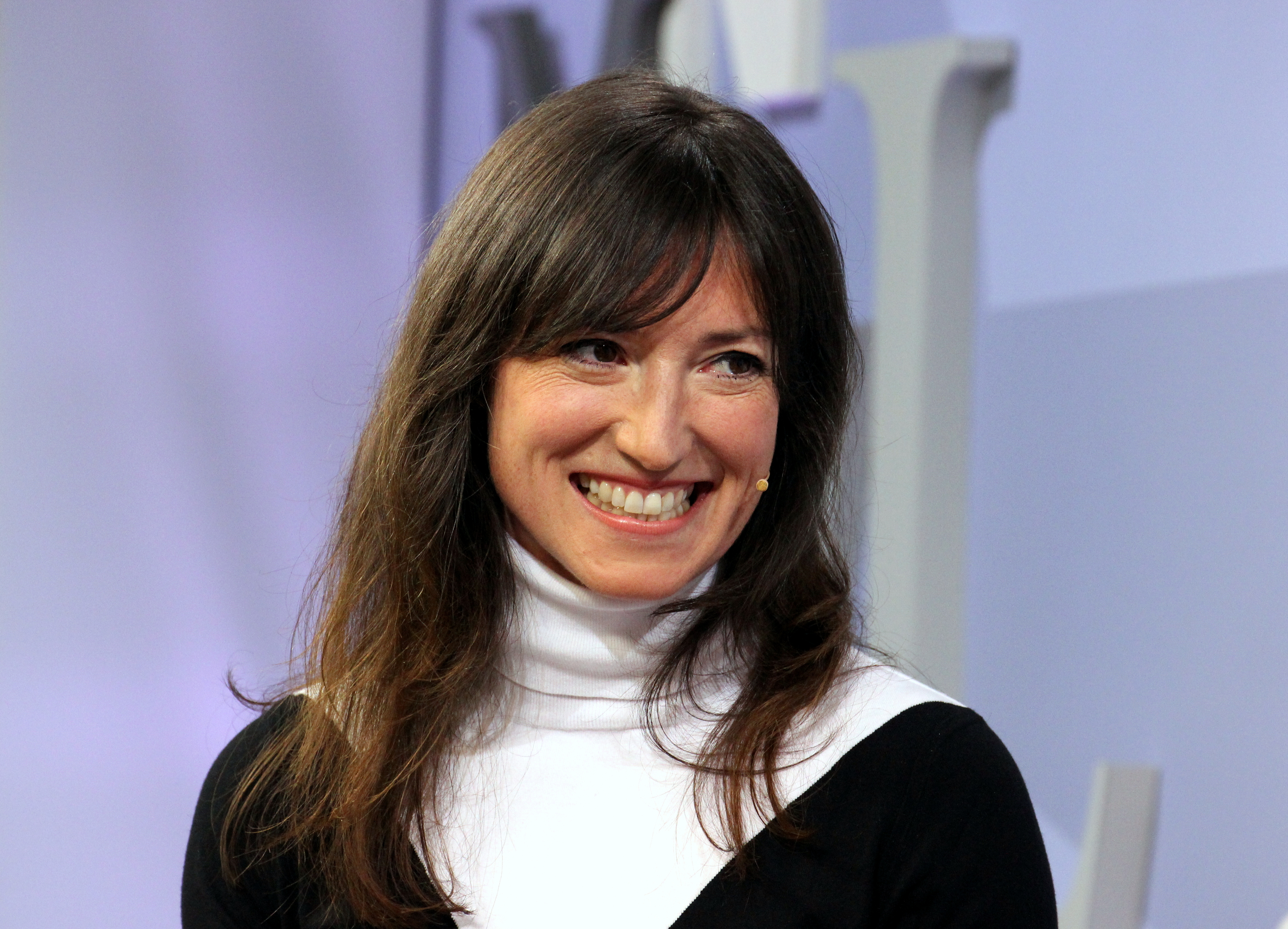 Charlotte Roche at Frankfurt Book Fair 2015